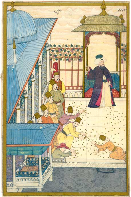 Sultan Ahmed III scattering golden coins on the terrace of the Fourth Court in the Topkapi Palace. Ottoman miniature painting from the Surname-ı Vehbi (folio 174b), kept at Topkapı Sarayı Müzesi, Istanbul.